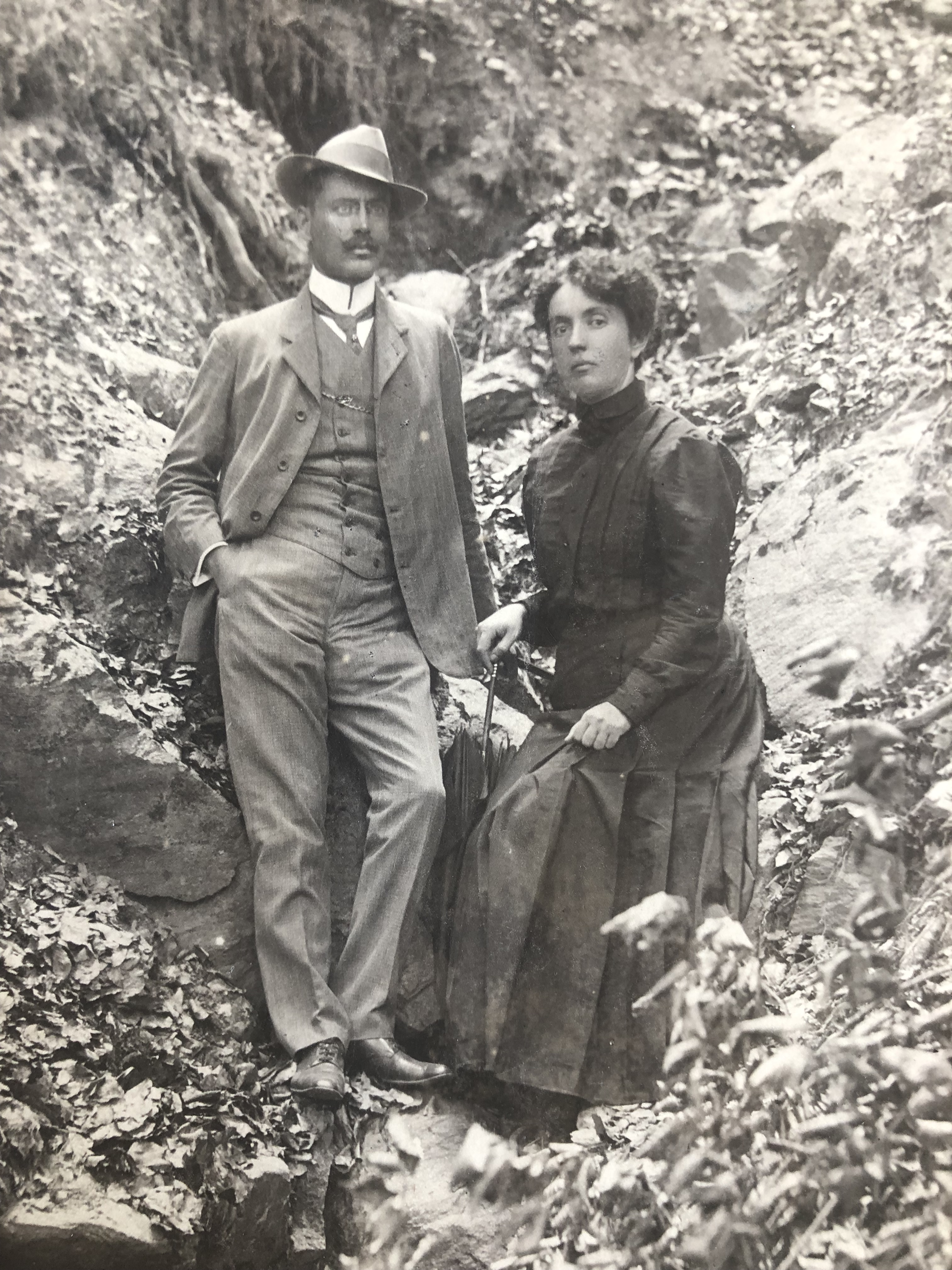 Rade Dunjic and his spouse Mrs Ljubica née Simic